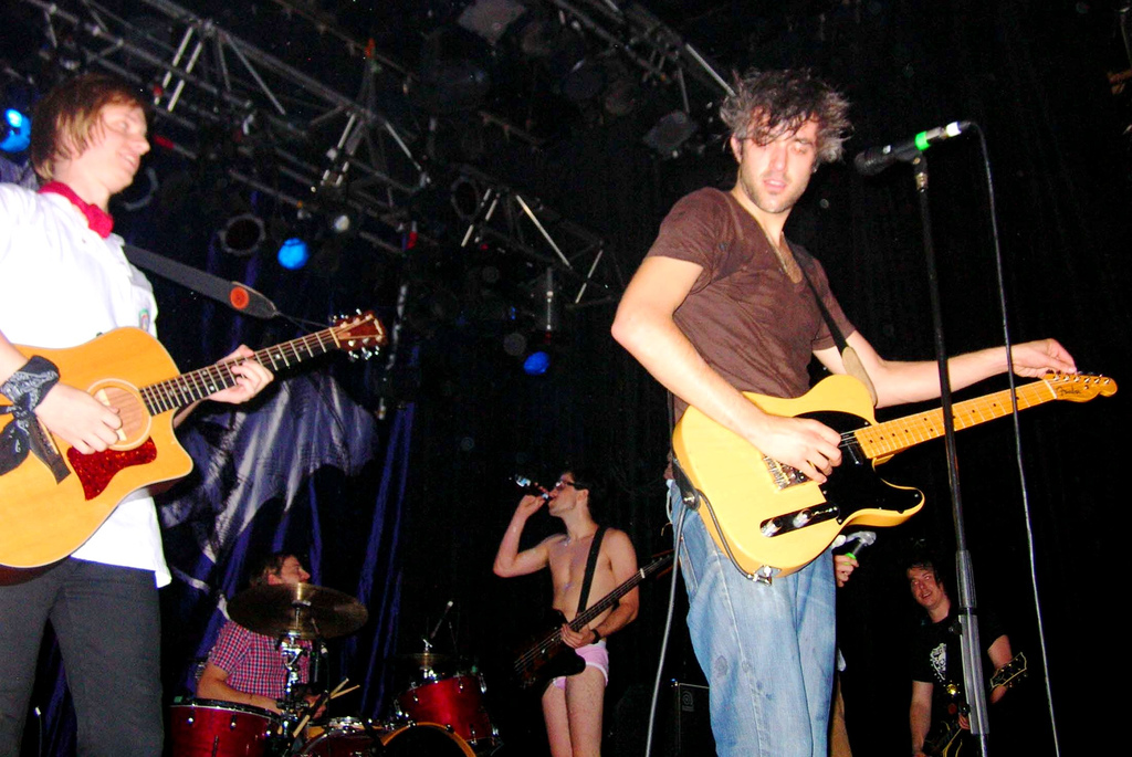 We Are Scientists playing in the "Also-Ran Buzz Band" Tour, at La Tulipe, Montreal, QC, Canada